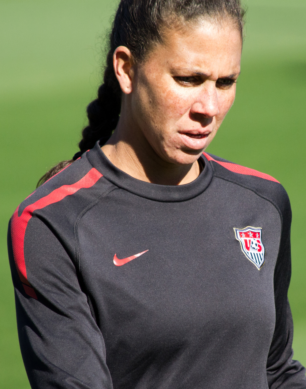 Shannon Boxx of the United States Women's National Soccer Team in Frisco, Texas